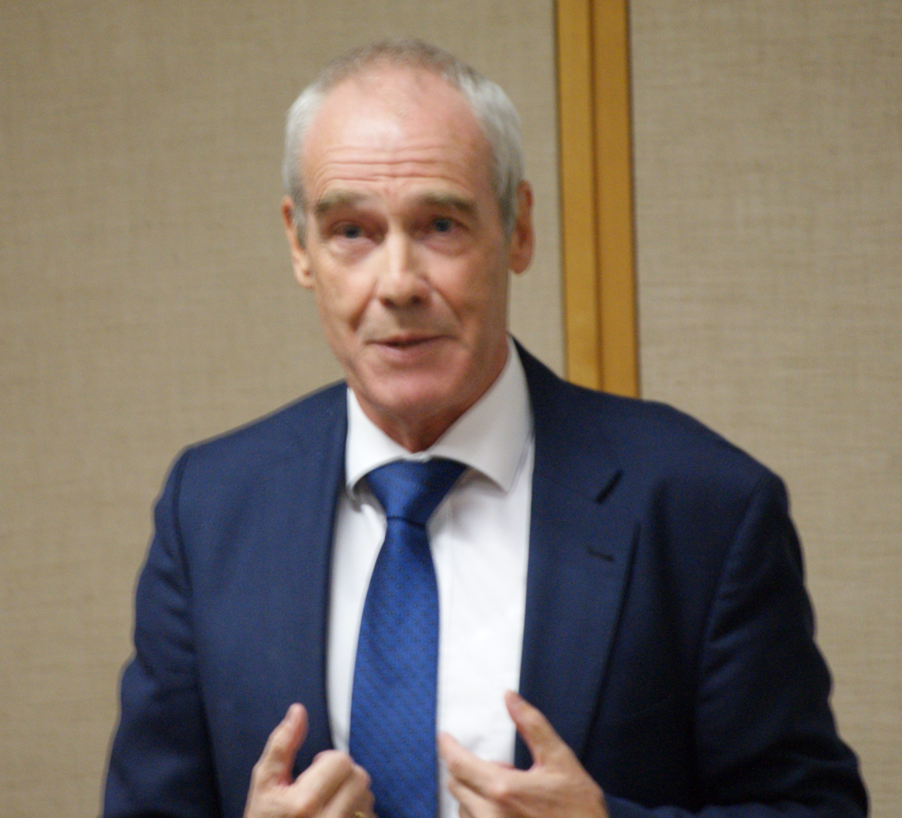 Eckart Ratz (born June 28, 1953 in Bregenz) is an Austrian legal expert and politician (non-party). From 2012 to 2018 he was President of the Supreme Court. From 22 May to 3 June 2019 he was in Austria Federal Minister of the Interior.